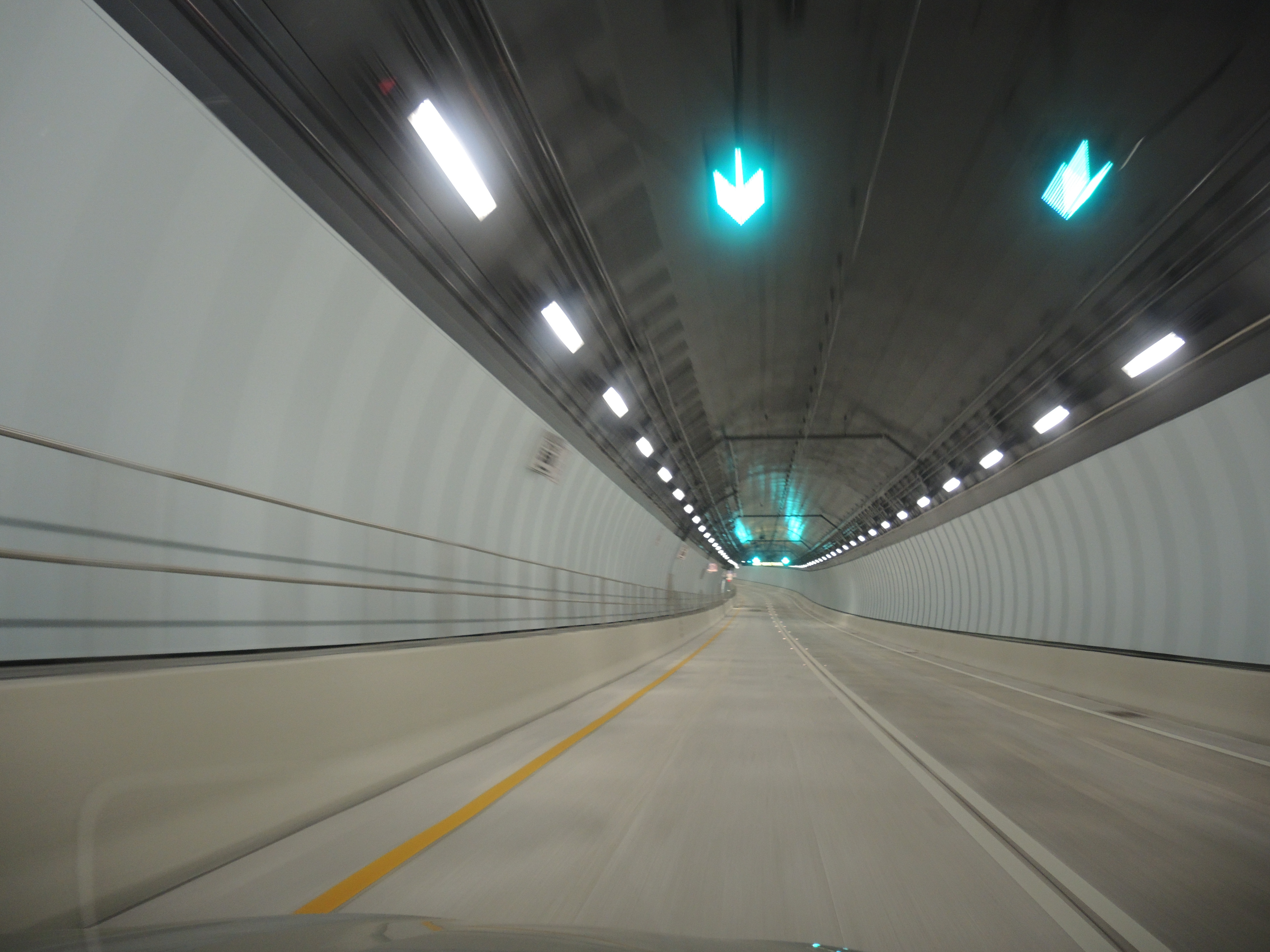 Port of Miami Tunnel middle segment